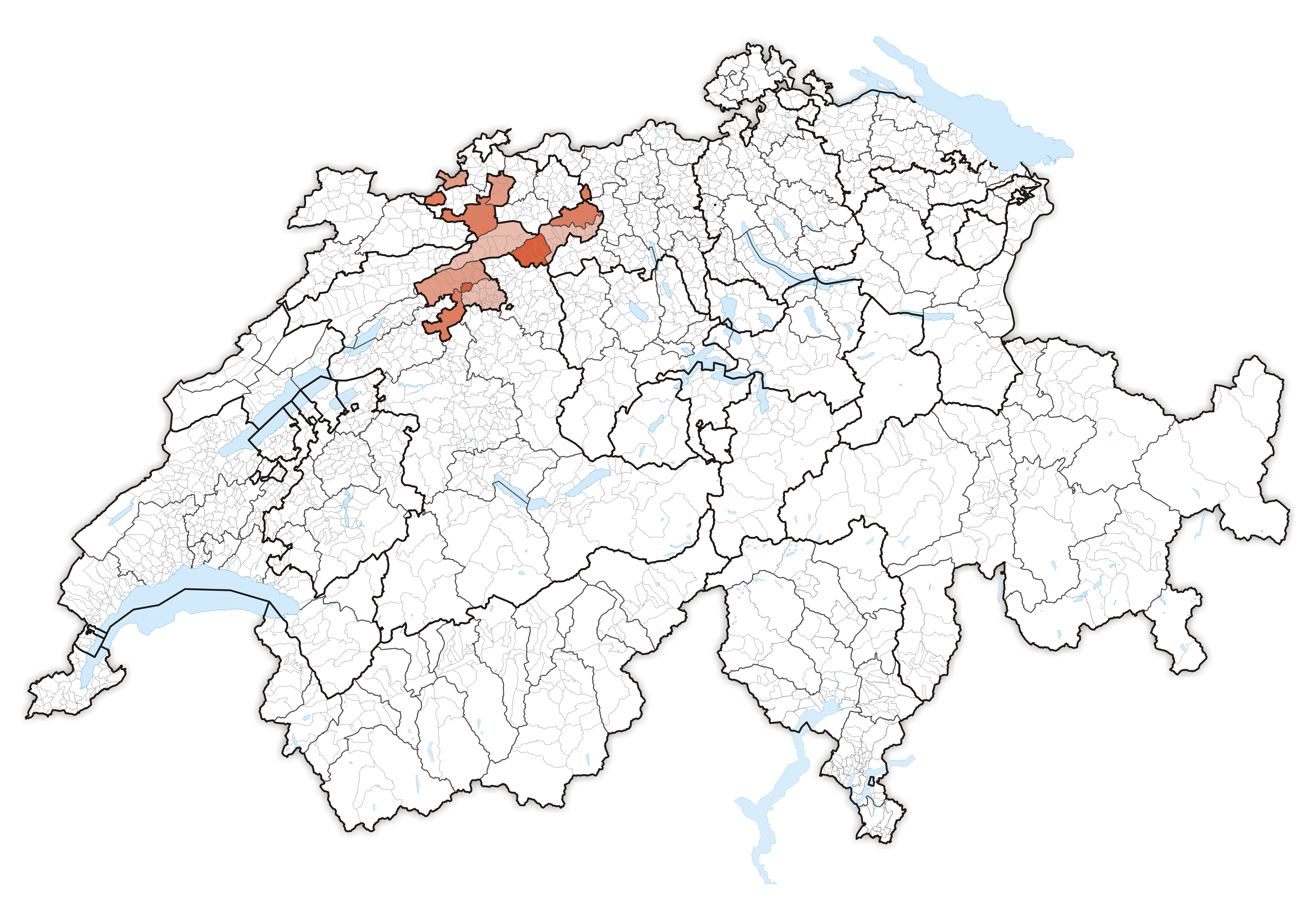 Canton Solothurn